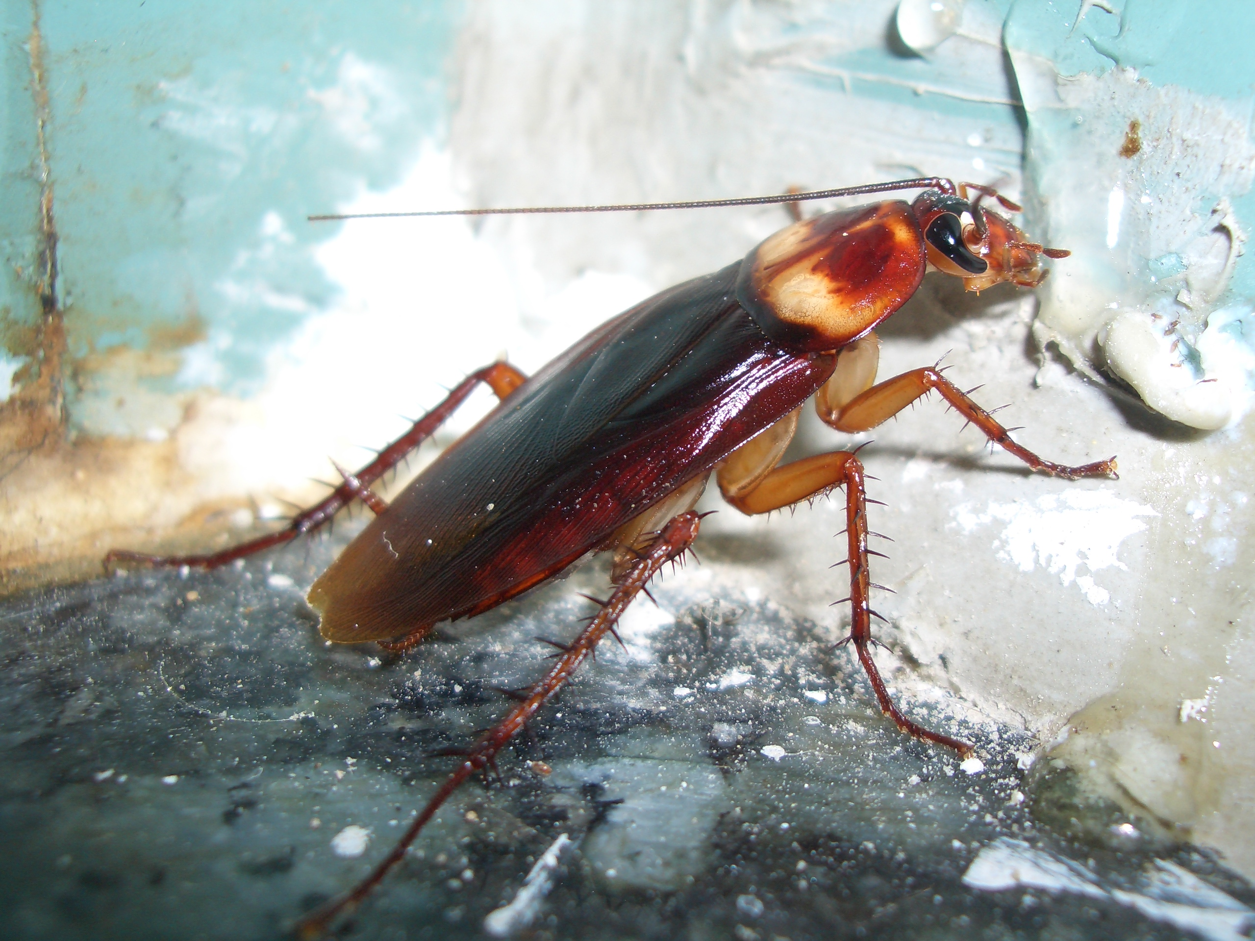 American cockroach (Periplaneta americana) feeding on bait gel